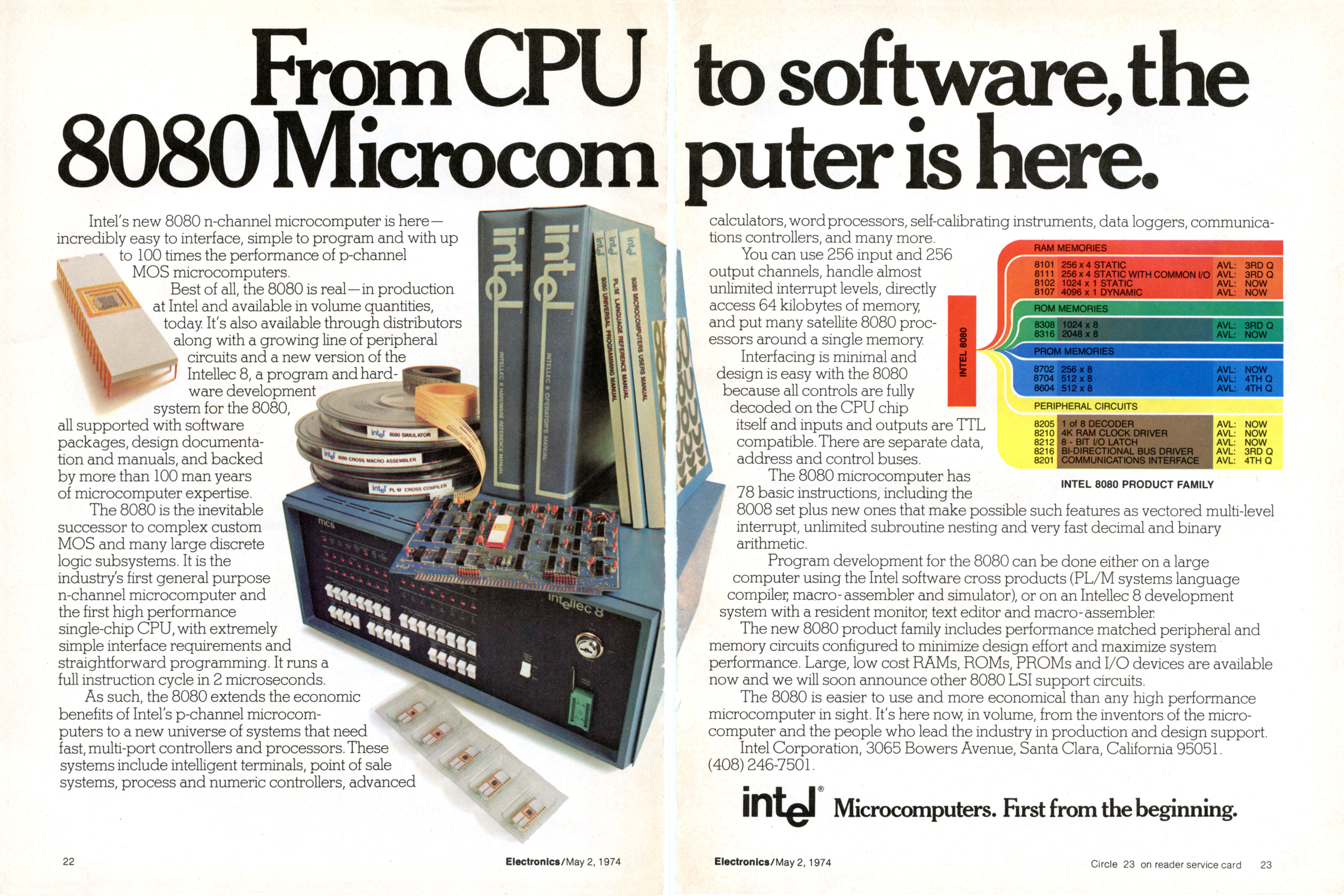 The Intel 8080 8-bit microprocessor was announced in April 1974. This introductory advertisement is from the May 2, 1974 issue of Electronics magazine (published on April 26, 1974). This advertisement also ran in the April 15, 1974 issue of Electronic News. The 8080's design engineers, Masatoshi Shima and Federico Faggin, wrote an article about the new microprocessor in the April 18, 1974 issue of Electronics magazine (published on April 12, 1974). Electronic News was a weekly trade newspaper and the cover date matched the publication date. Electronics magazine was published every two weeks with a Thursday cover date, the publication date was the previous Friday. Publication dates are from the copyright registrations. Intel (April 15, 1974). "From CPU to software, the 8080 Microcomputer is here". Electronic News (New York: Fairchild Publications): pp. 44–45. Shima, Masatoshi; Federico Faggin (April 18, 1974). "In switch to n-MOS microprocessor gets a 2-μs cycle time". Electronics (New York: McGraw-Hill) 47 (8): pp. 95–100.